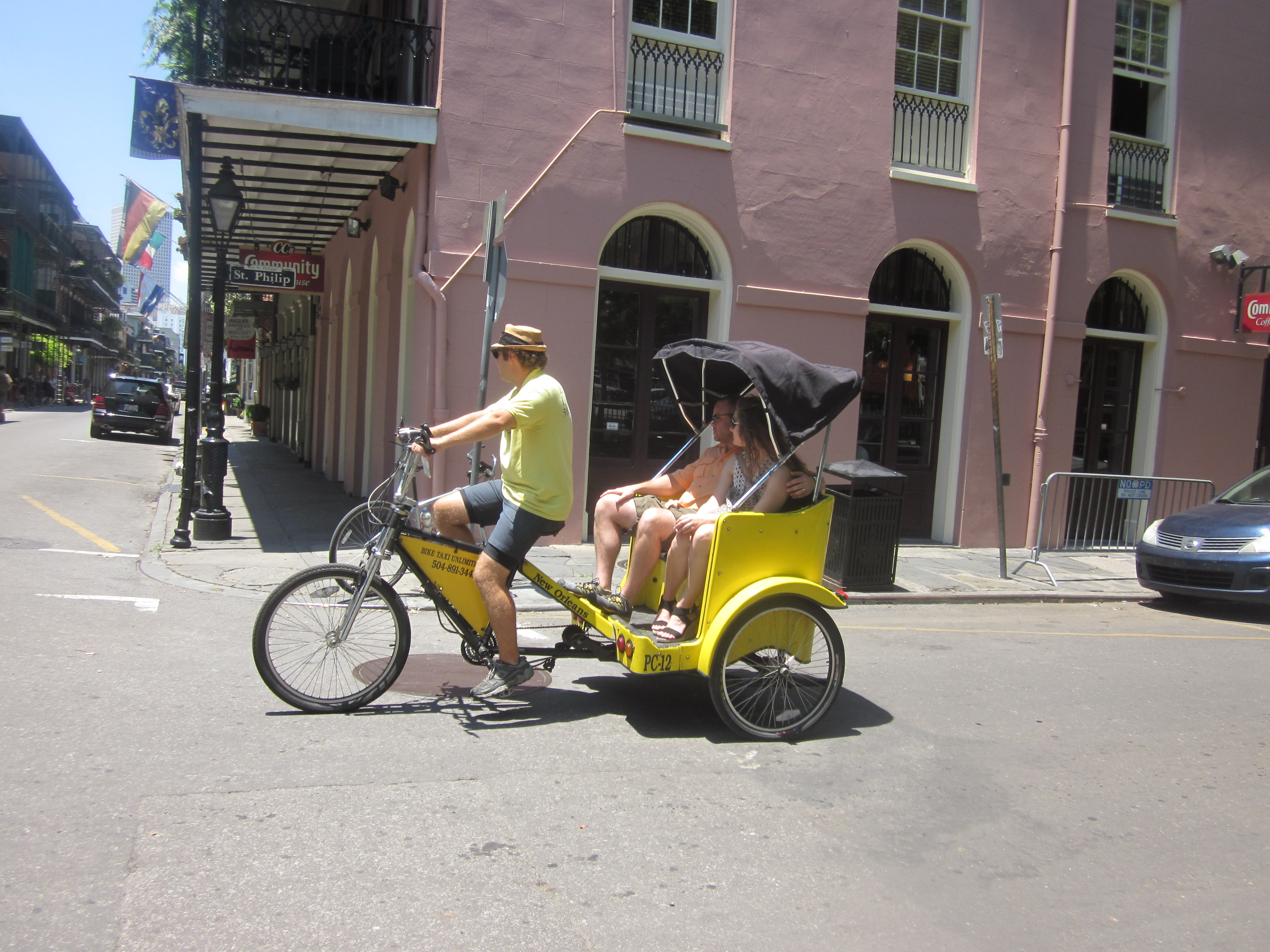 Pedicab, French Quarter, New Orleans